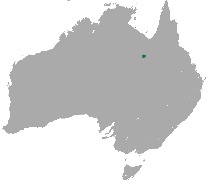 Alexandria False Antechinus (Pseudantechinus mimulus) range